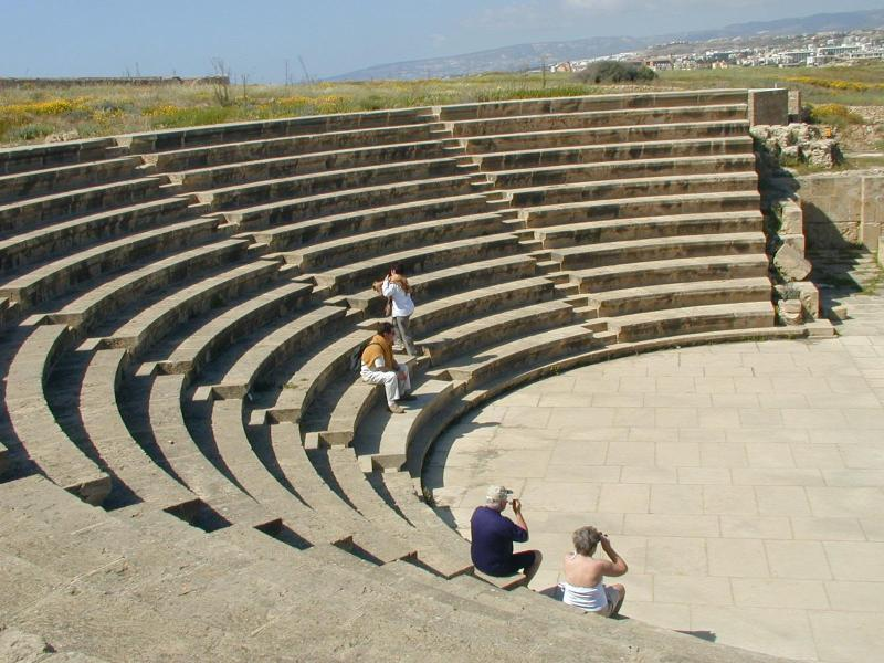 Odeon, Paphos, Cyprus.